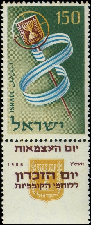 Eighth Independence Day stamp - 150 mil. Inscription on tab: "The Eighth Independence Day", "Memorial Day for the Fighters for Independence"